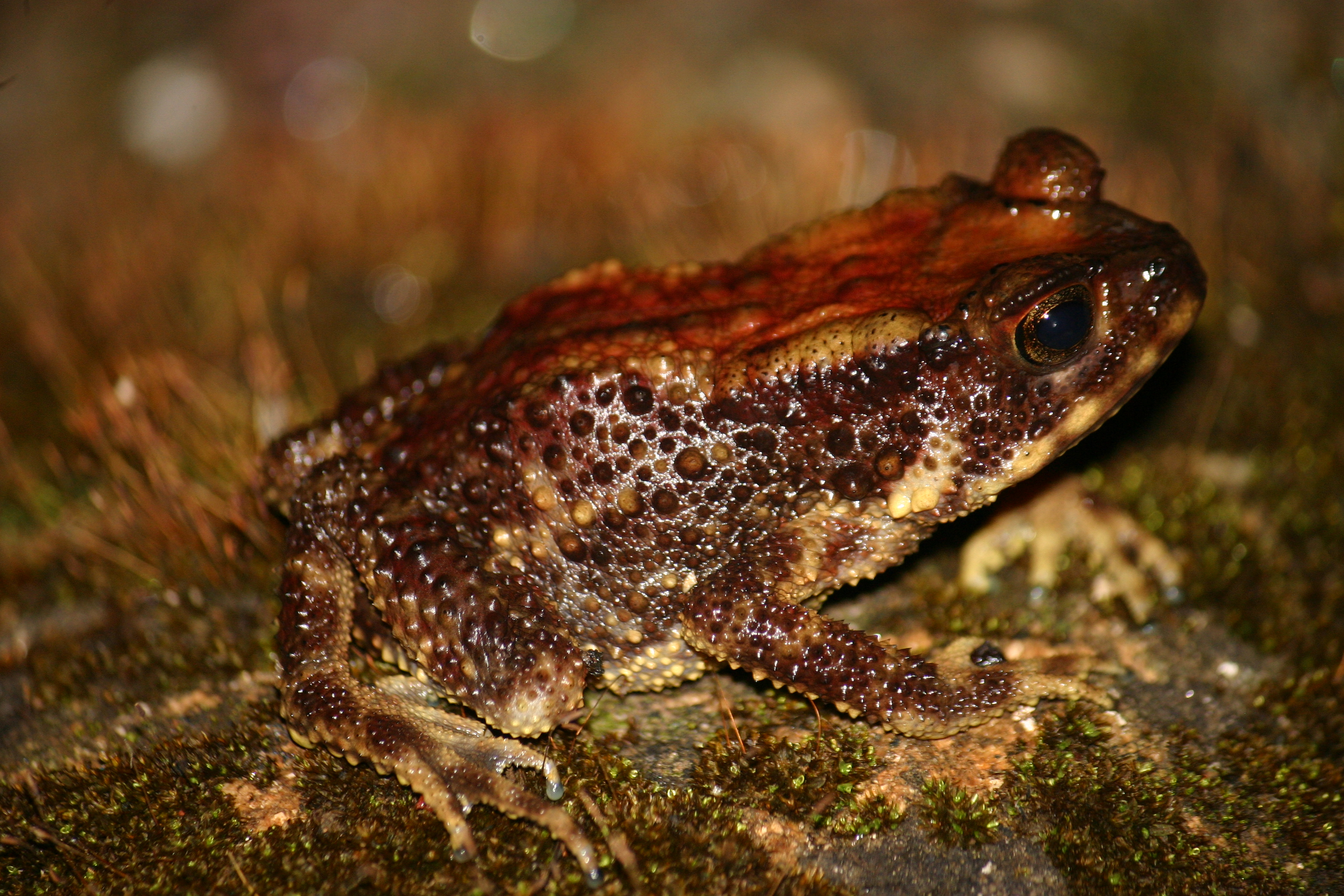 frog from india